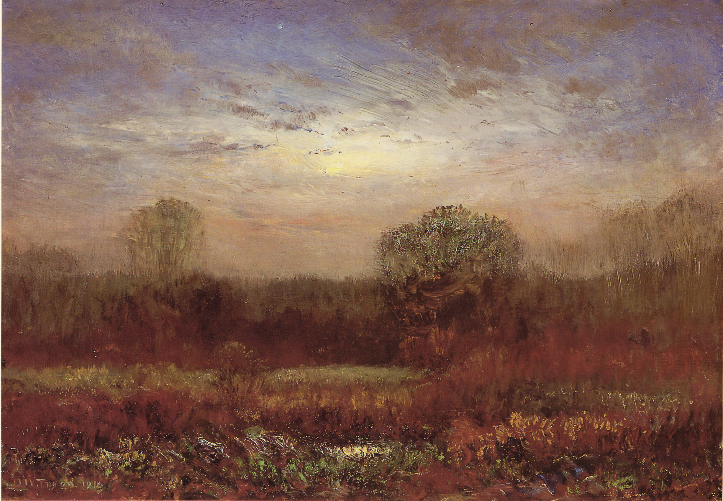 Painting Autumn Night by Dwight William Tryon